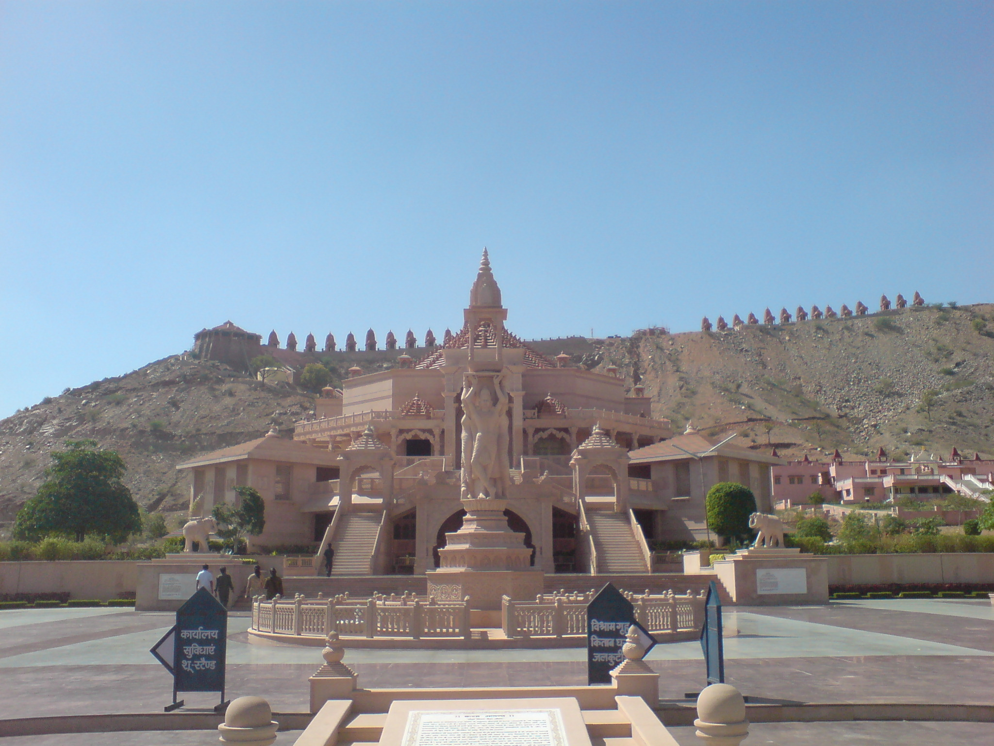 Nareli Ajmer - jain teerth